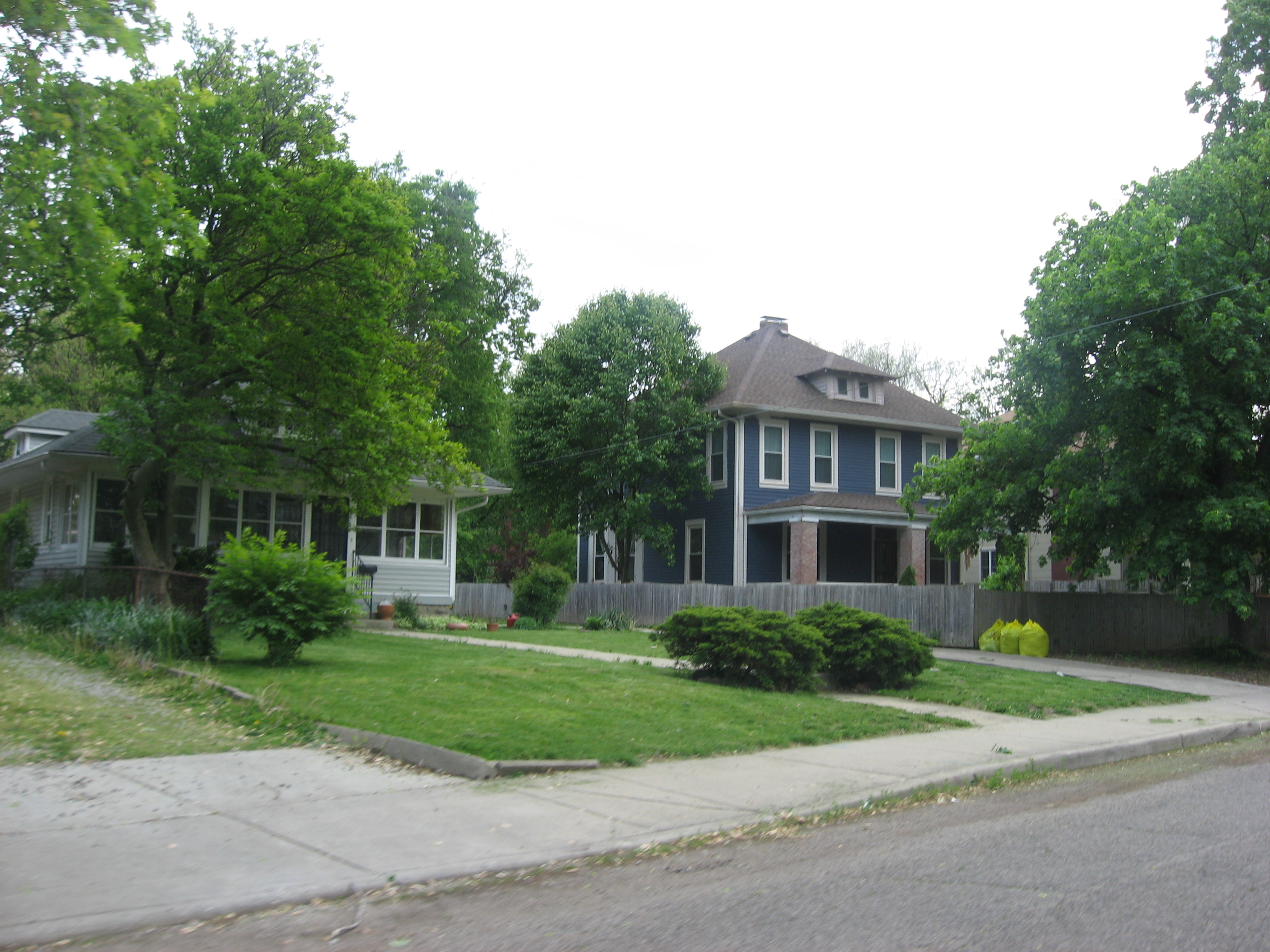 Houses at 545 (left) and 539 (right) E. 37th Street in Indianapolis, Indiana, United States. They are part of the Watson Park Historic District, a historic district that is listed on the National Register of Historic Places.